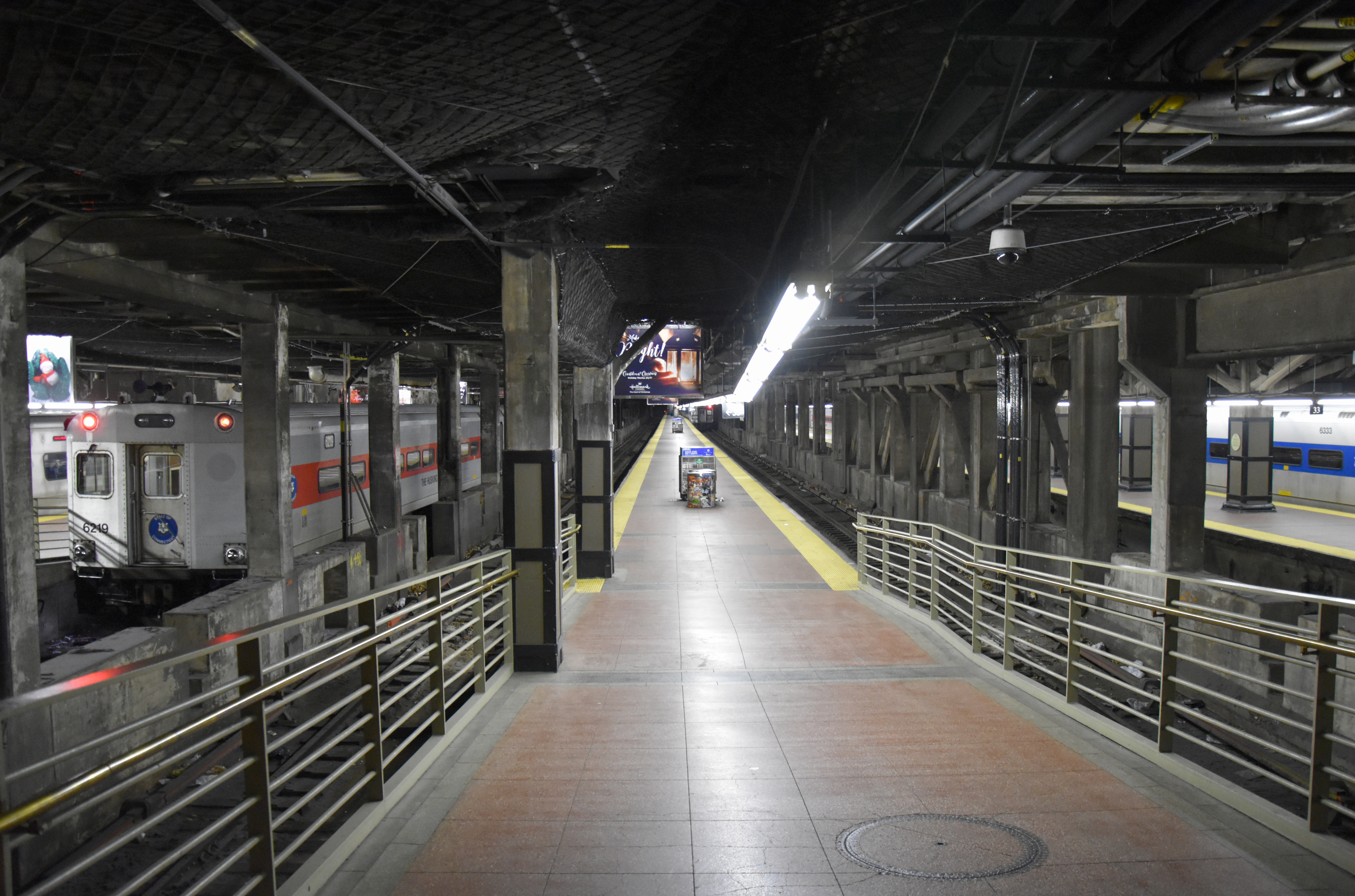 Tracks 34 and 35 in New York City's Grand Central Terminal in 2019. Taken as part of a scheduled photoshoot with three other Wikipedians on January 7, 2019.